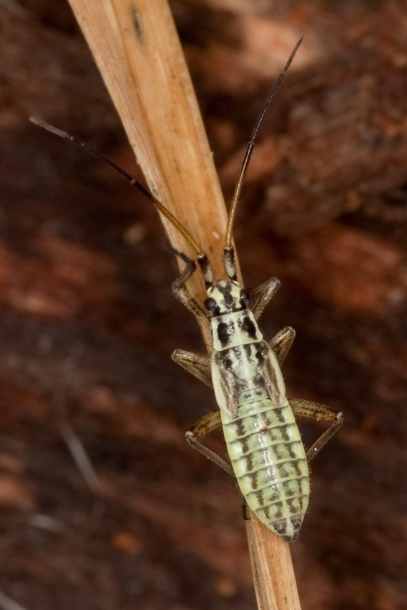 Meadow plant bug (Leptopterna dolabrata) (juvenile) at Shelby Park in Nashville, Tennessee